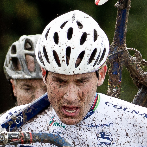 Head shot of Richard Feldman Racing cyclocross in WA State.